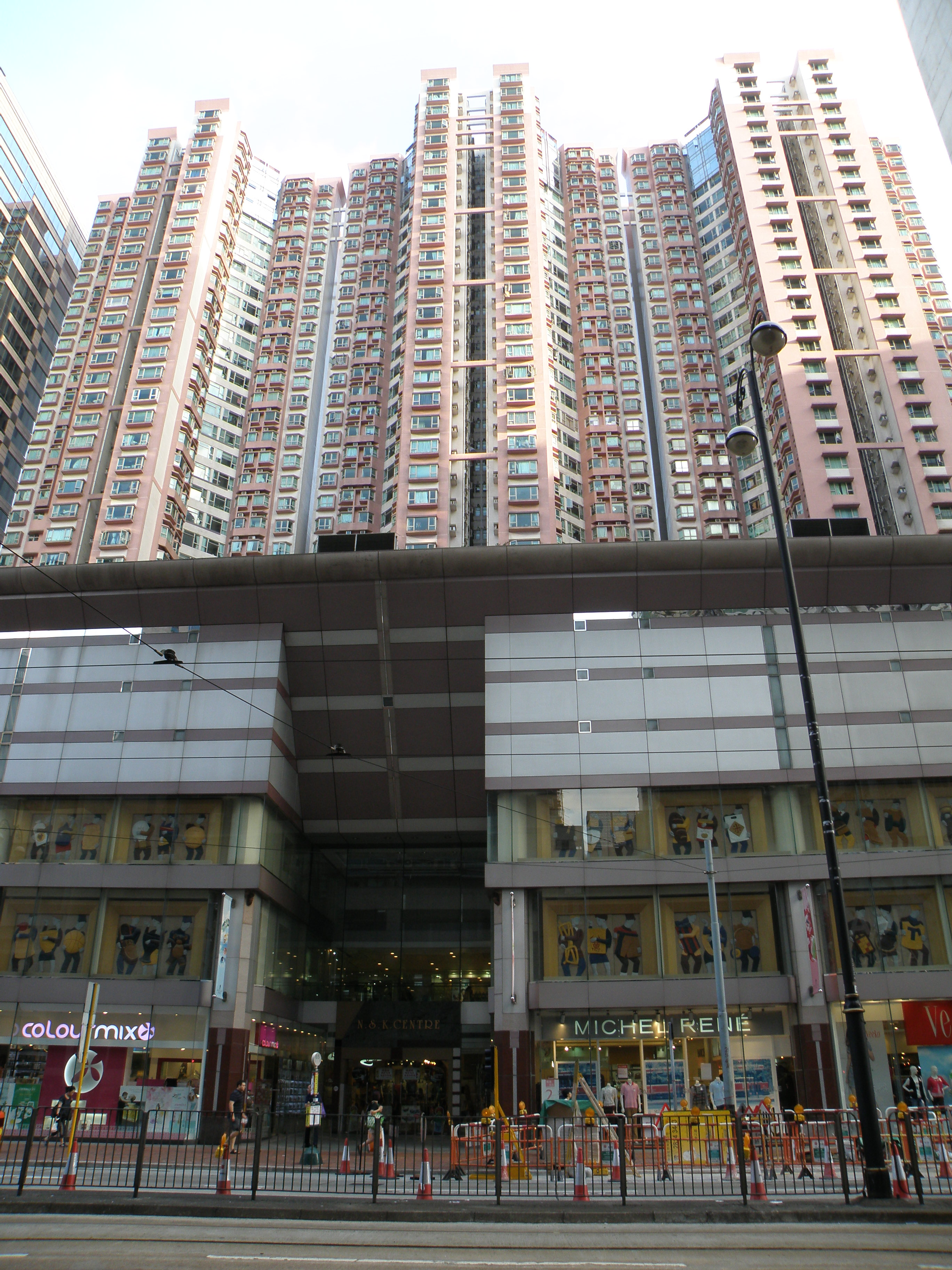 Island Place in North Point, Hong Kong.